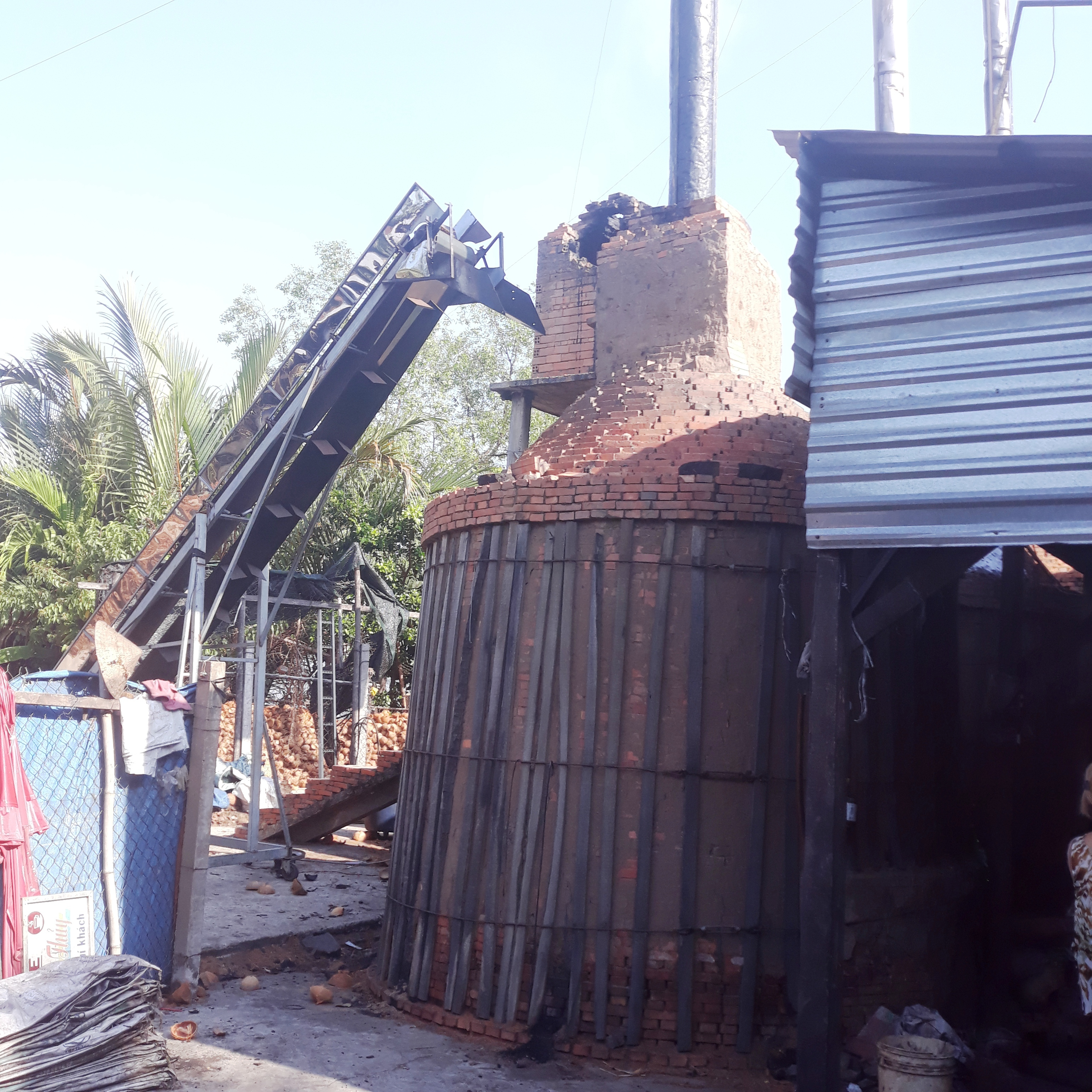 Charcoal 2